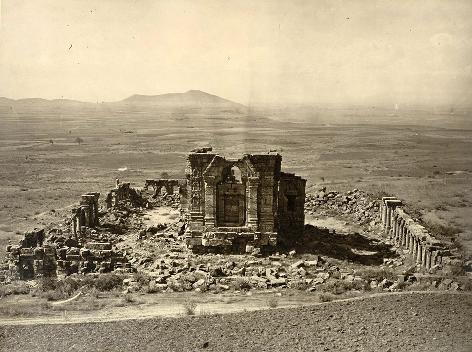 Kashmir. General view of Temple and Enclosure of Marttand or the Sun, near Bhawan. Probable date of temple A.D. 490-555. Probable date of colonnade A.D. 693-729 Photograph of the Surya Temple at Martand in Jammu & Kashmir taken by John Burke in 1868. This general view from the hillside looking down onto the ruins of the temple was reproduced in Henry Hardy Cole's Archaeological Survey of India Report 'Illustrations of Ancient Buildings in Kashmir.' (1869). Cole stated, 'The most impressive and grandest ruins in Kashmir, are at Marttand, which is about three miles east of Anantnag.' . The Surya temple is situated on a high plateau and commands superb views over the Kashmir valley. Dedicated to the sun god, it is considered a masterpiece of early temple architecture in Kashmir. It was built by Lalitaditya Muktapida (ruled c.724-c.760) of the Karkota dynasty, one of the greatest of Kashmir's rulers, under whom both Buddhism and Hinduism flourished. The temple consists of a principal sanctuary standing on a high plinth in a rectangular colonnaded court, surrounded by 84 small shrines. Its roof has disappeared but the immense doorway before the sanctum still stands, consisting of a trefoil arch set within a tall triangular pediment standing on engaged pilasters.